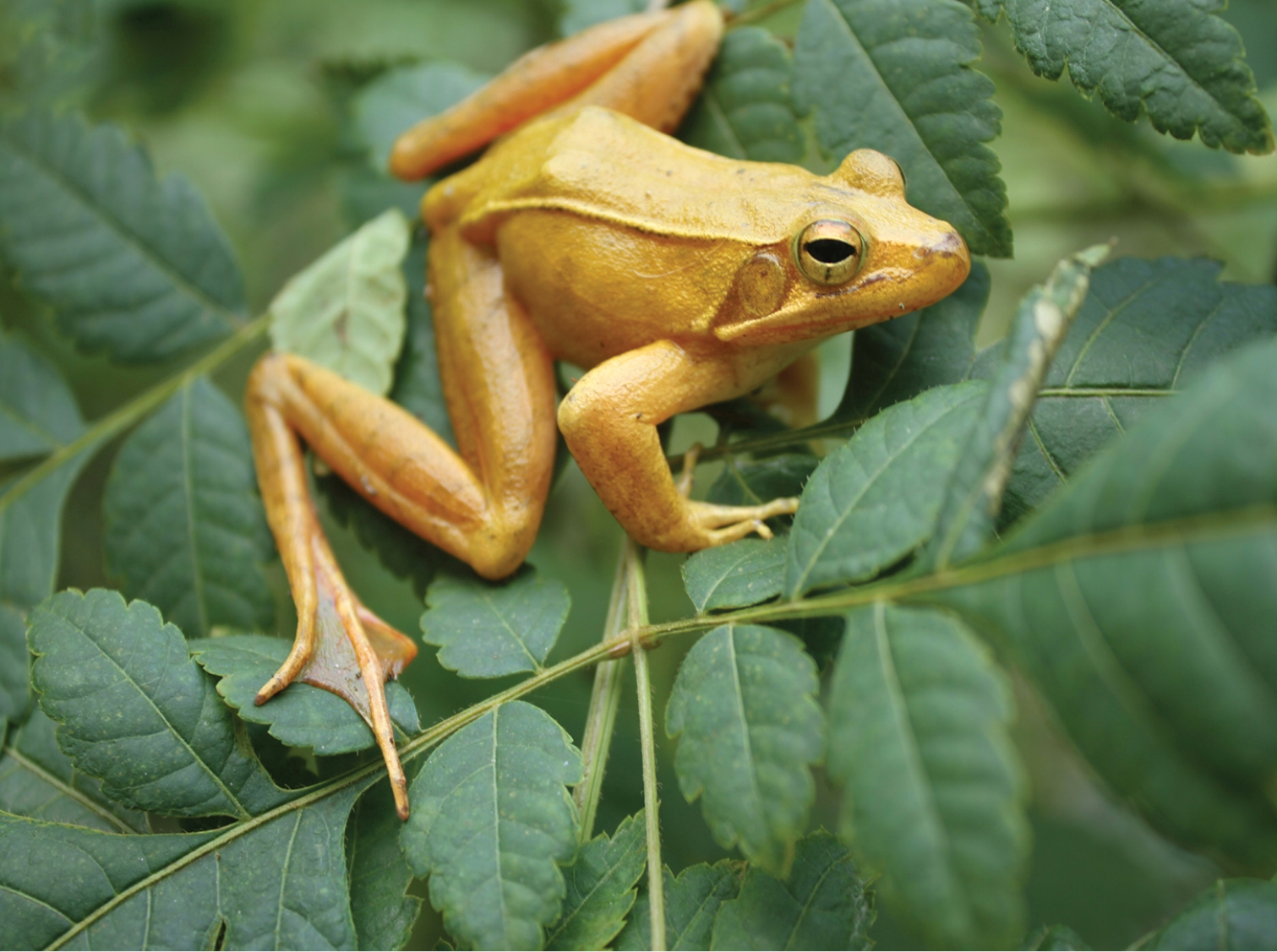 Cropped by File:Male of Rana dabieshanensis.jpg